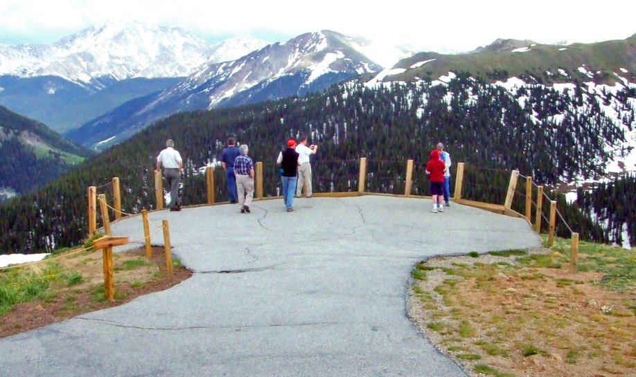 Scenic overlook at Independence Pass, Colorado, USA, with view of high peaks of the Sawatch Range